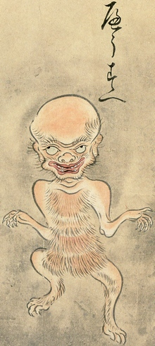 Hyōsube (へうすへ, a kind of hair-covered kappa) from the Hyakkai-Zukan (百怪図巻)